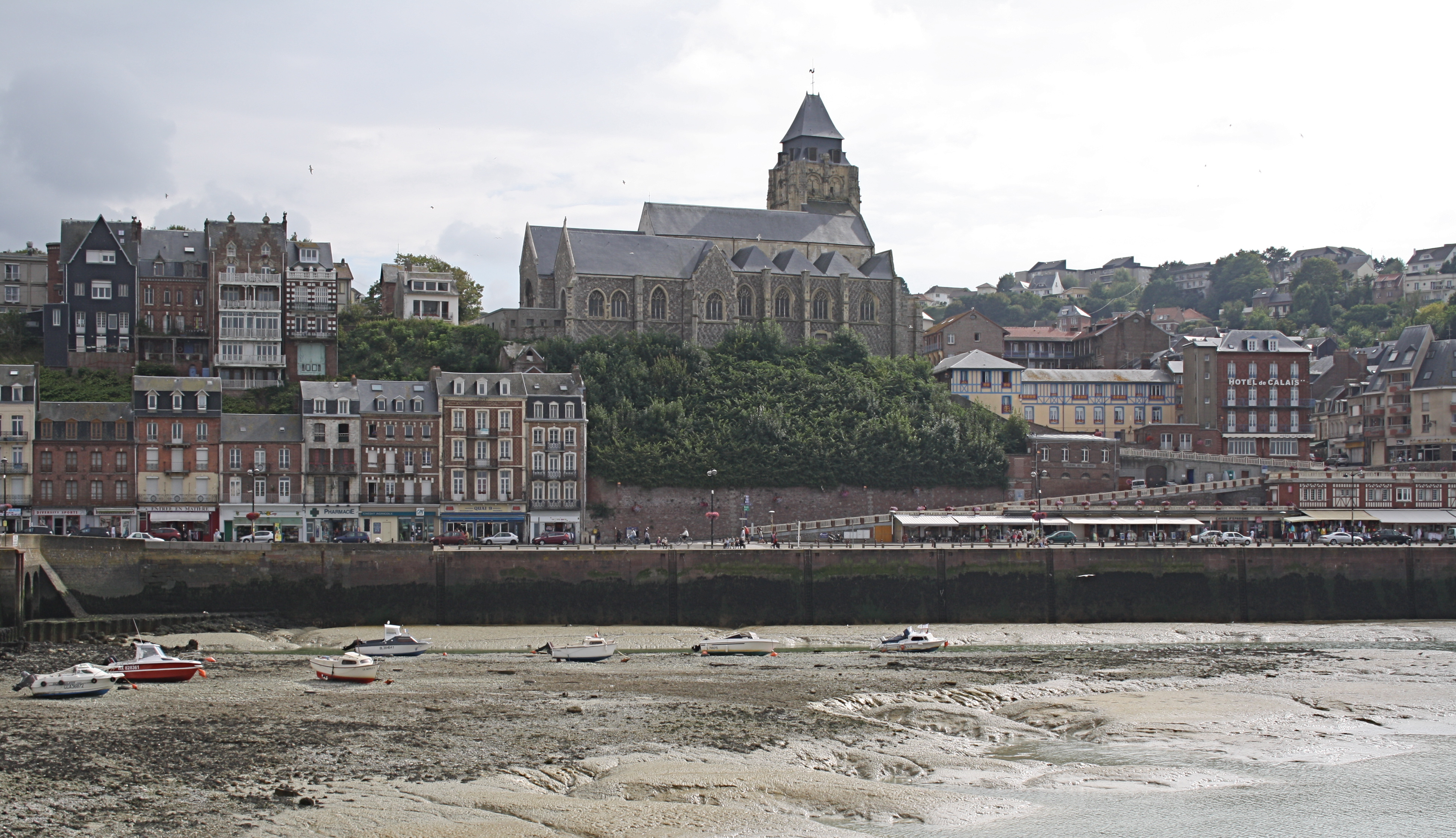 Le Tréport